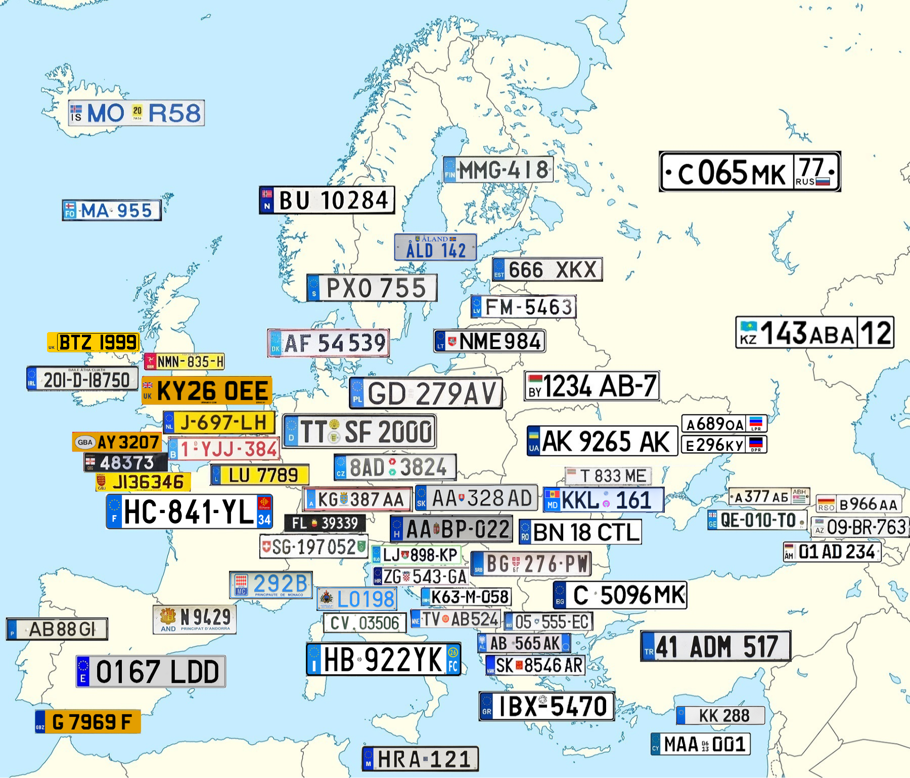 Registration plates of regular private automobile vehicles throughout Europe, including dependencies and disputed territories. This map shows the most up-to-date current versions of (rear) license plates in Europe.